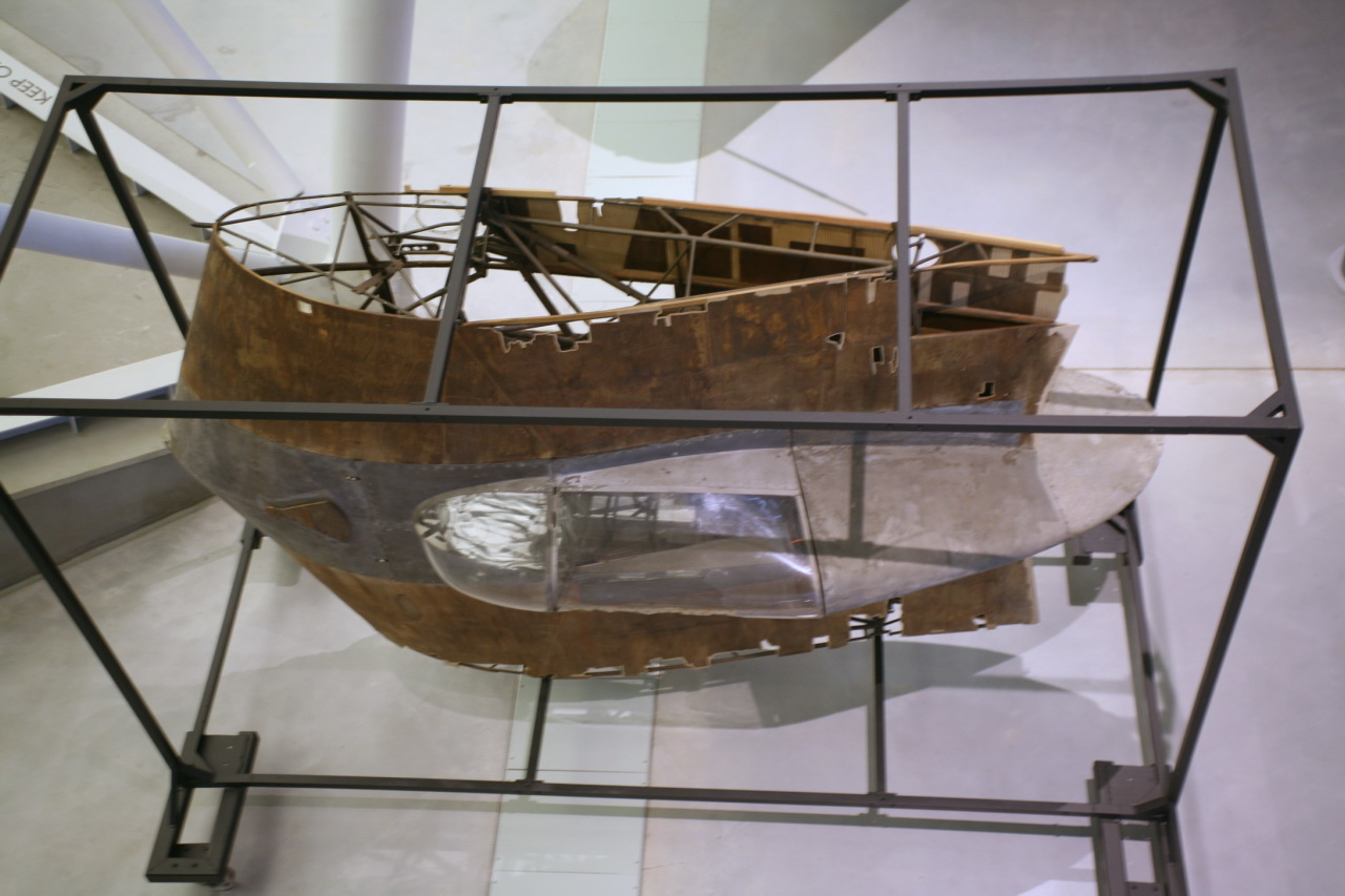 Horten craftsmen built this Horten H.IIIh, Werk Nr. 31, in 1944 at Göttingen. Uncertainty surrounds the subtype designation 'h' but the glider probably first flew as a two-place Horten III g, and then Reimar modified it into a single-seat glider, installed special test apparatus, and changed the designation to 'III h. During September 1944, Josef Eggert of Zimmer Unter den Burg, a small town near Rottweil, Germany, flew the unmodified III g twenty times and amassed 14 hours and 17 minutes of total flight time. Eggert reported excellent handling qualities but he apparently chose not to grapple with adverse yaw because he commented specifically on the very tight, but flat turns that were possible using only the drag rudders. Eggert warned that stall recovery was good but only when the aircraft was properly trimmed.